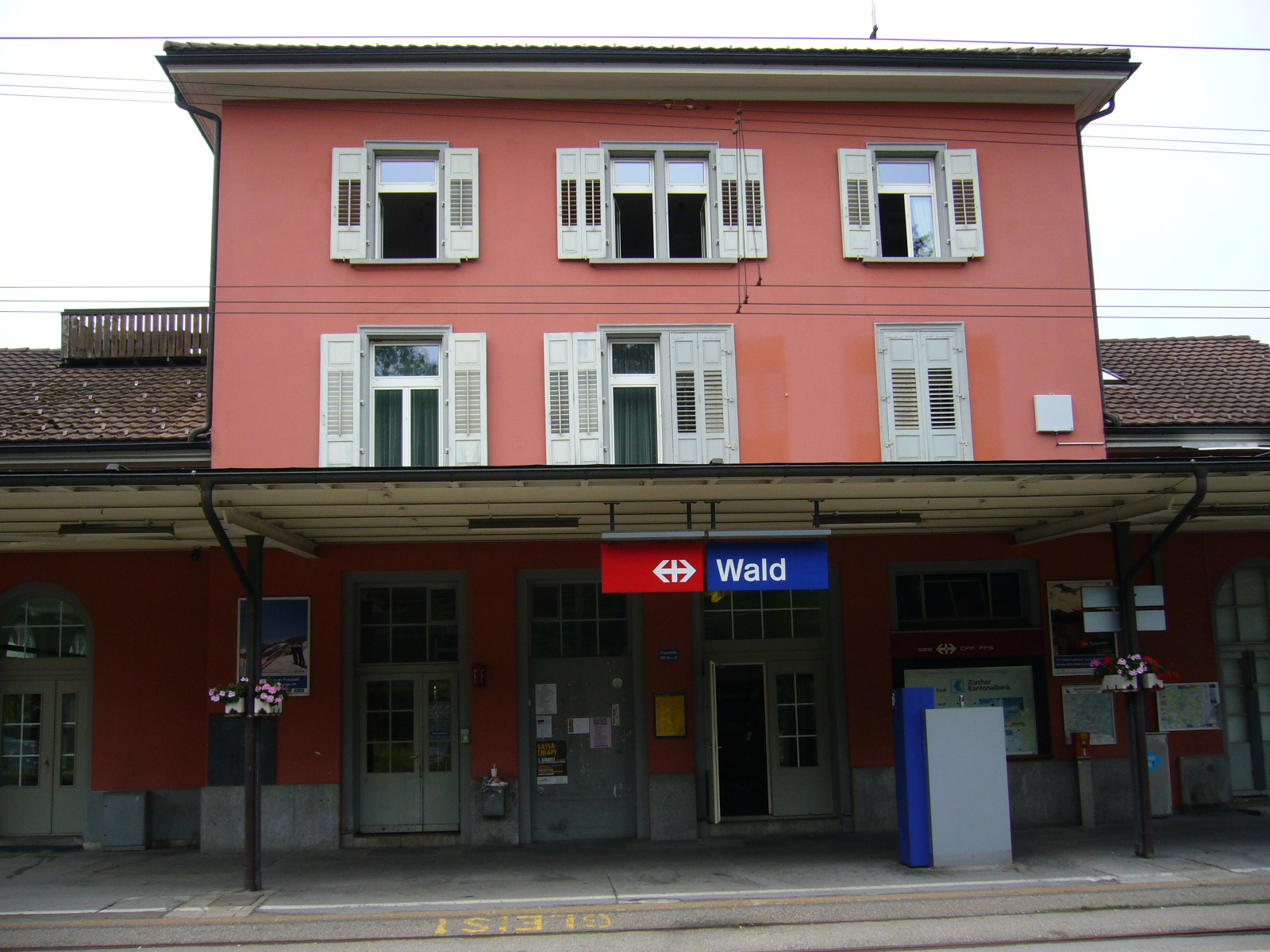 Railway station in Wald, Canton of Zürich, Switzerland. Picture taken by Peter Berger, July 22, 2006.